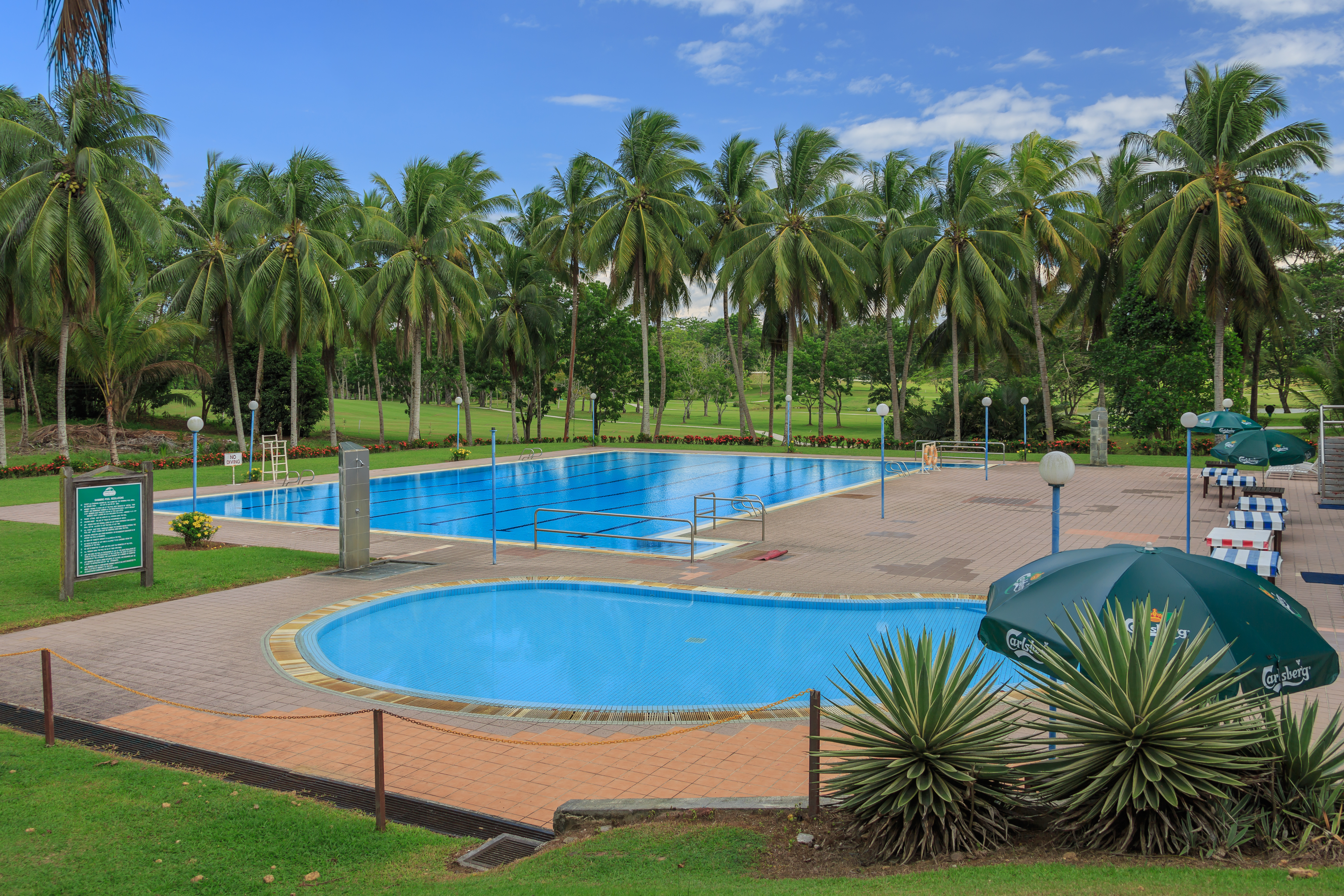 Sandakan, Sabah: Sandakan Golf and Country Club, Pool area